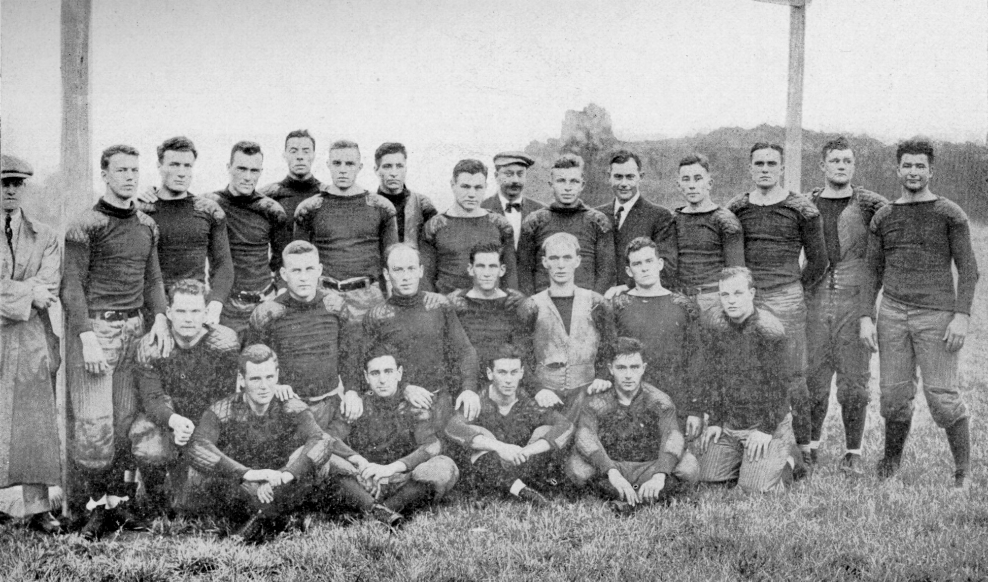 Photograph of the 1911 Michigan Wolverines football team by A. S. Lyndon